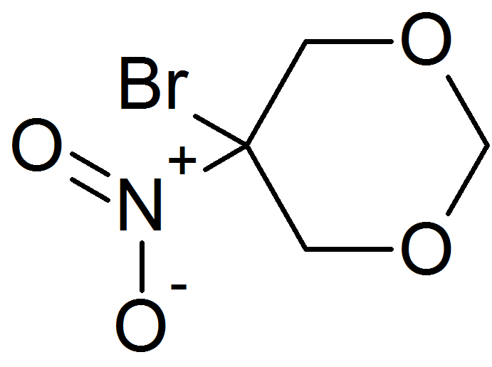 Structure of bronidox